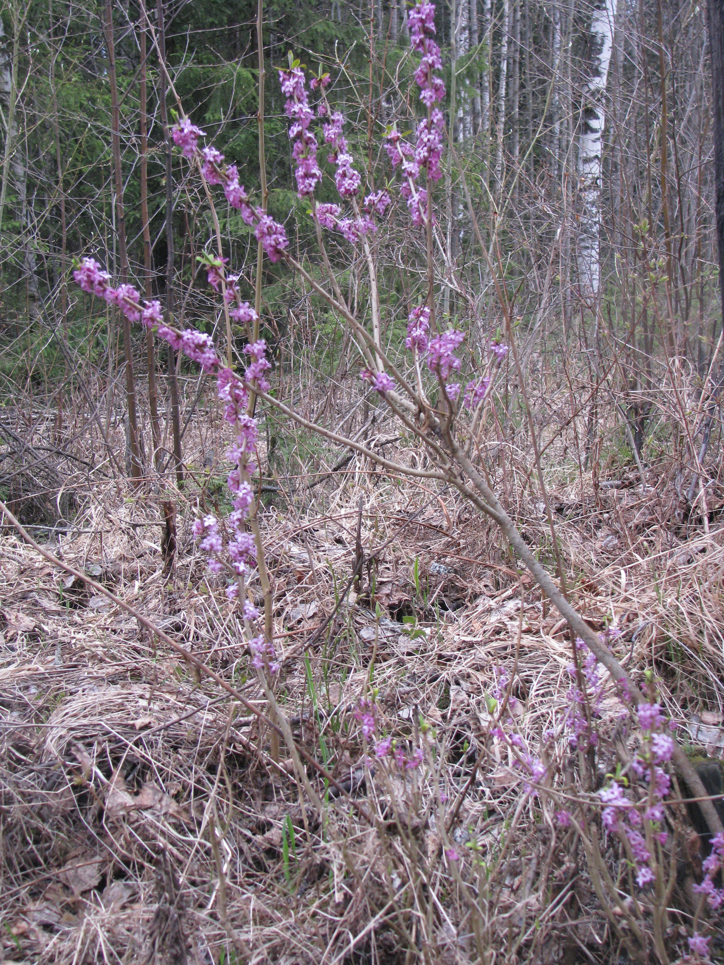 Daphne mezereum. Flowering plants. Russia, Komi Republic, near Ukhta